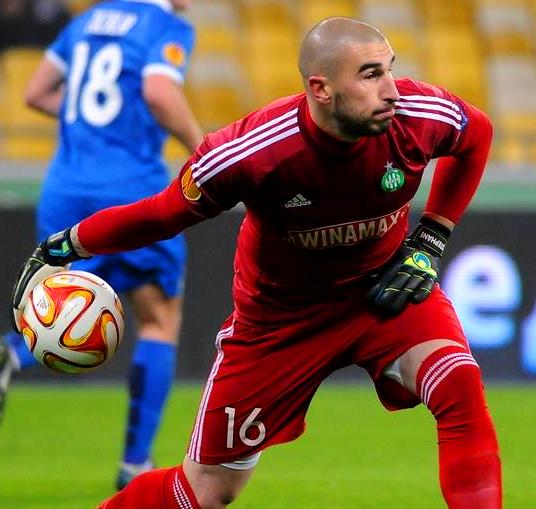 Stéphane Ruffier